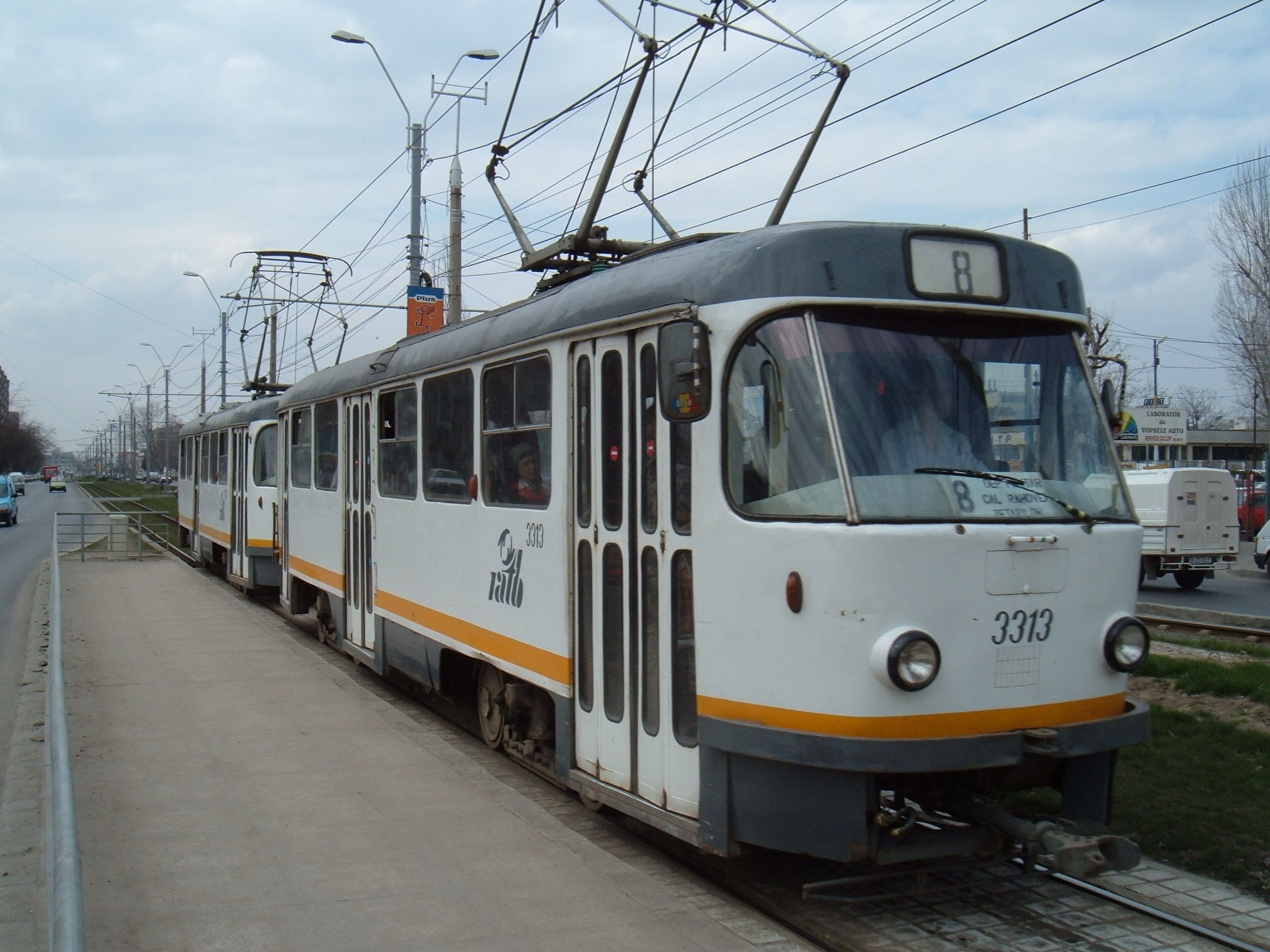 Tram in Bucharest, Romania (Tatra T4 type). RATB București company.